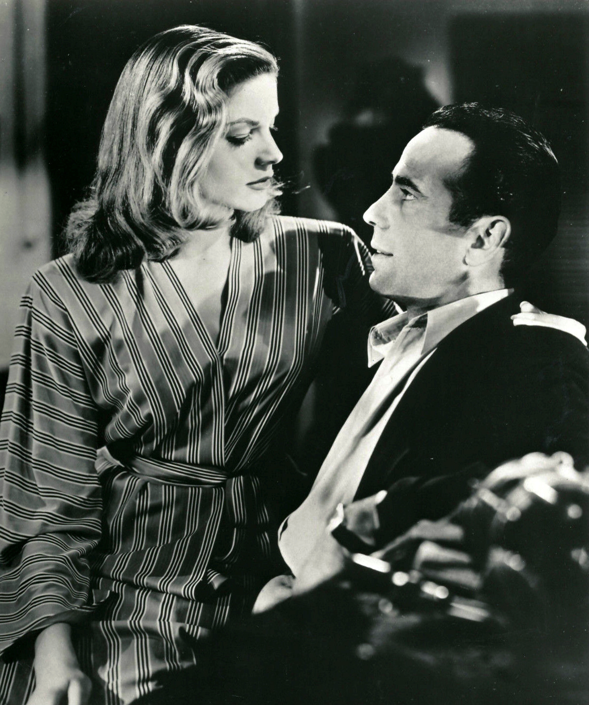 Photo of Lauren Bacall and Humphrey Bogart in a scene from the film To Have and Have Not.